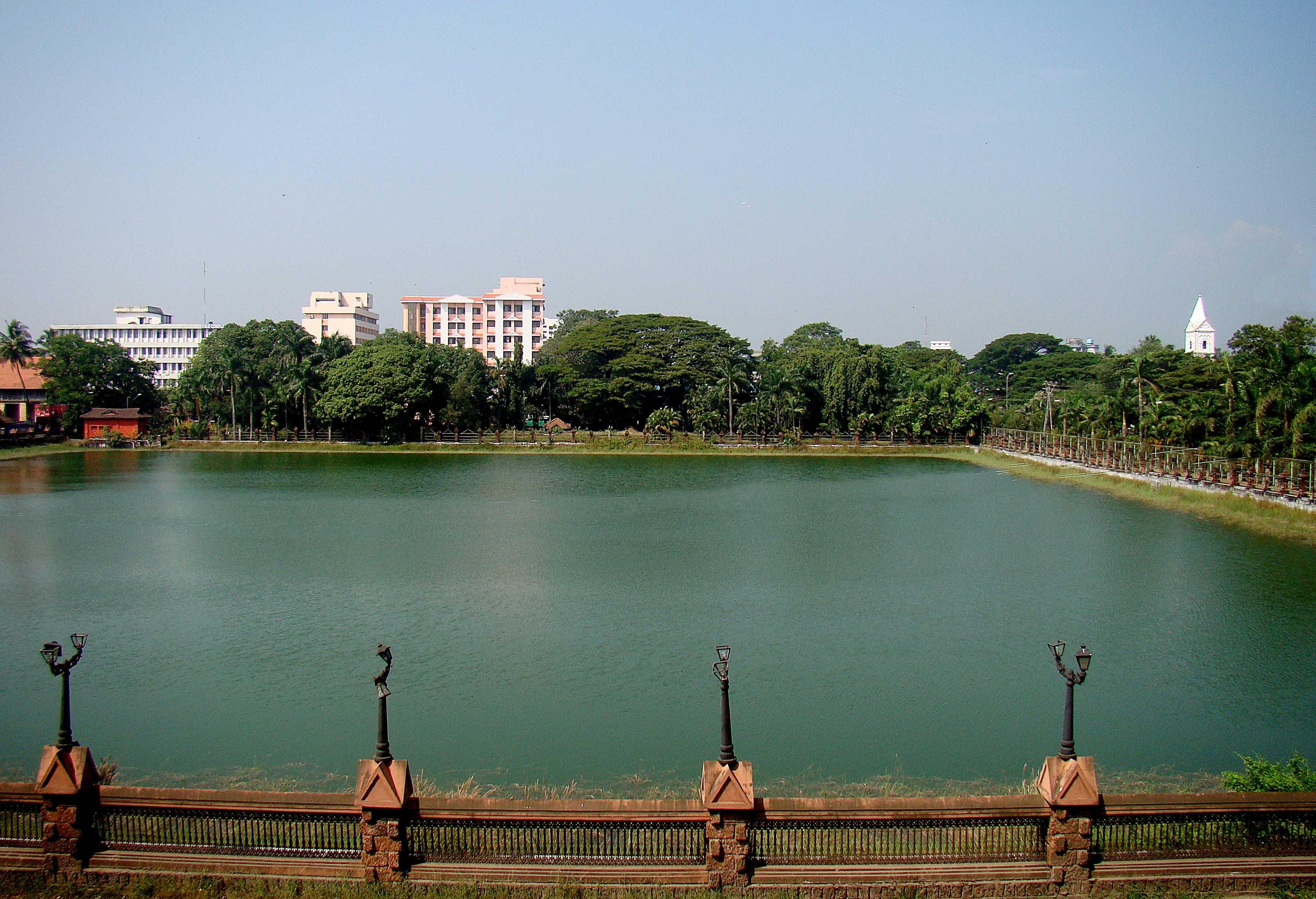 The land mark Pond in the heart of Calicut City. The pond is known a Mananchira.hundreds of Hotels and People depend on this Pond for drinking Water. This pond is adjacent to the Town Hall and Comtrust.